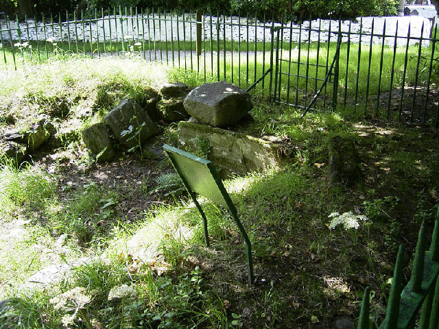 Glenlough Keeill on Glenlough Farm, Marown. An Early Christian Keeill (Chapel) also known as Cabbal Druiaght (Druid's Chapel). This is on the farm/campsite between Union Mills and Glen Vine.